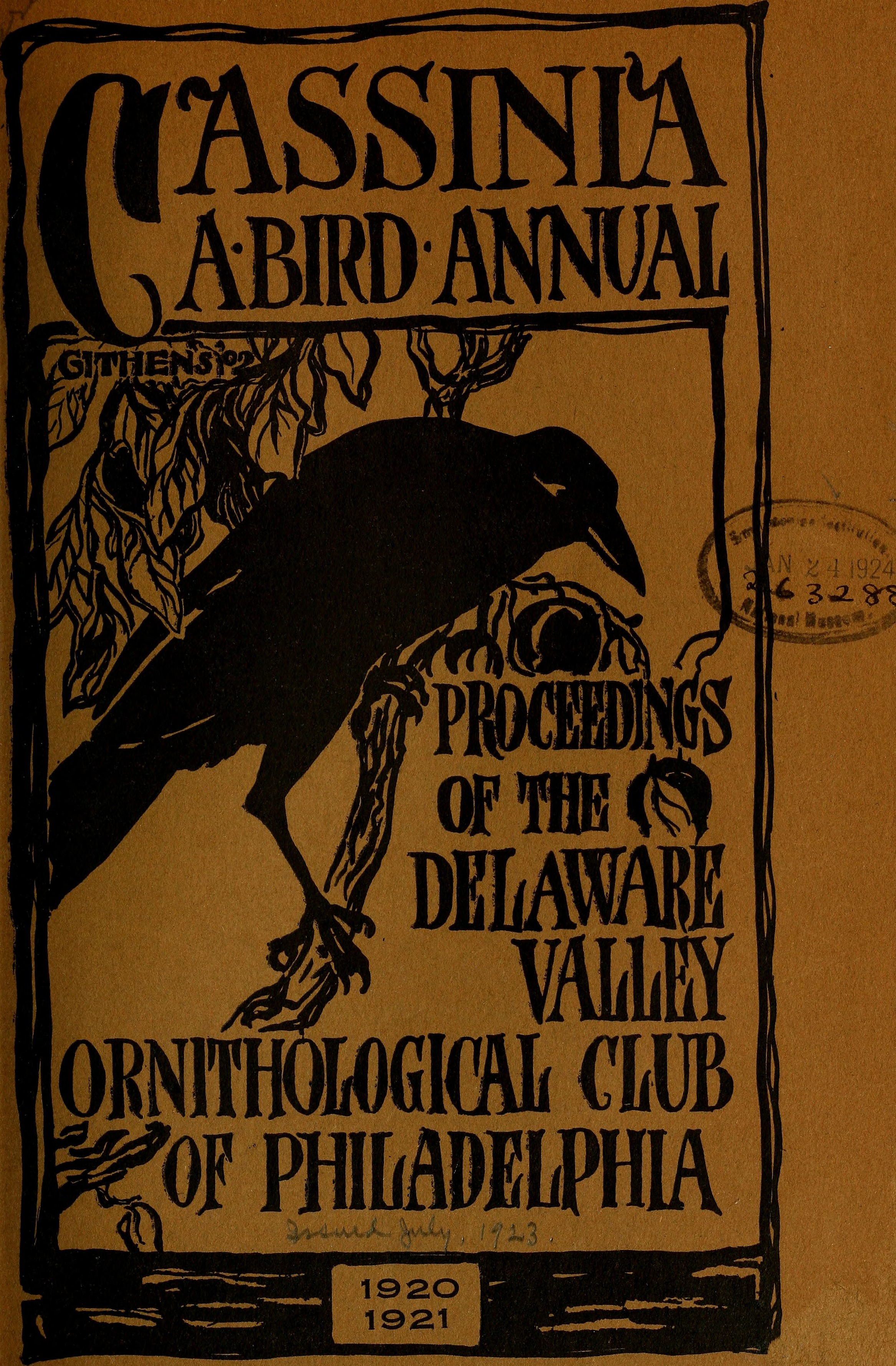 Title: Cassinia Year: 1901 (1900s) Authors: Delaware Valley Ornithological Club Subjects: Ornithology; Ornithology; Ornithology Publisher: Philadelphia : Delaware Valley Ornithological Club Text Appearing Before Image: ^*2. ^^ Text Appearing After Image: ISSUED JULY, 1923